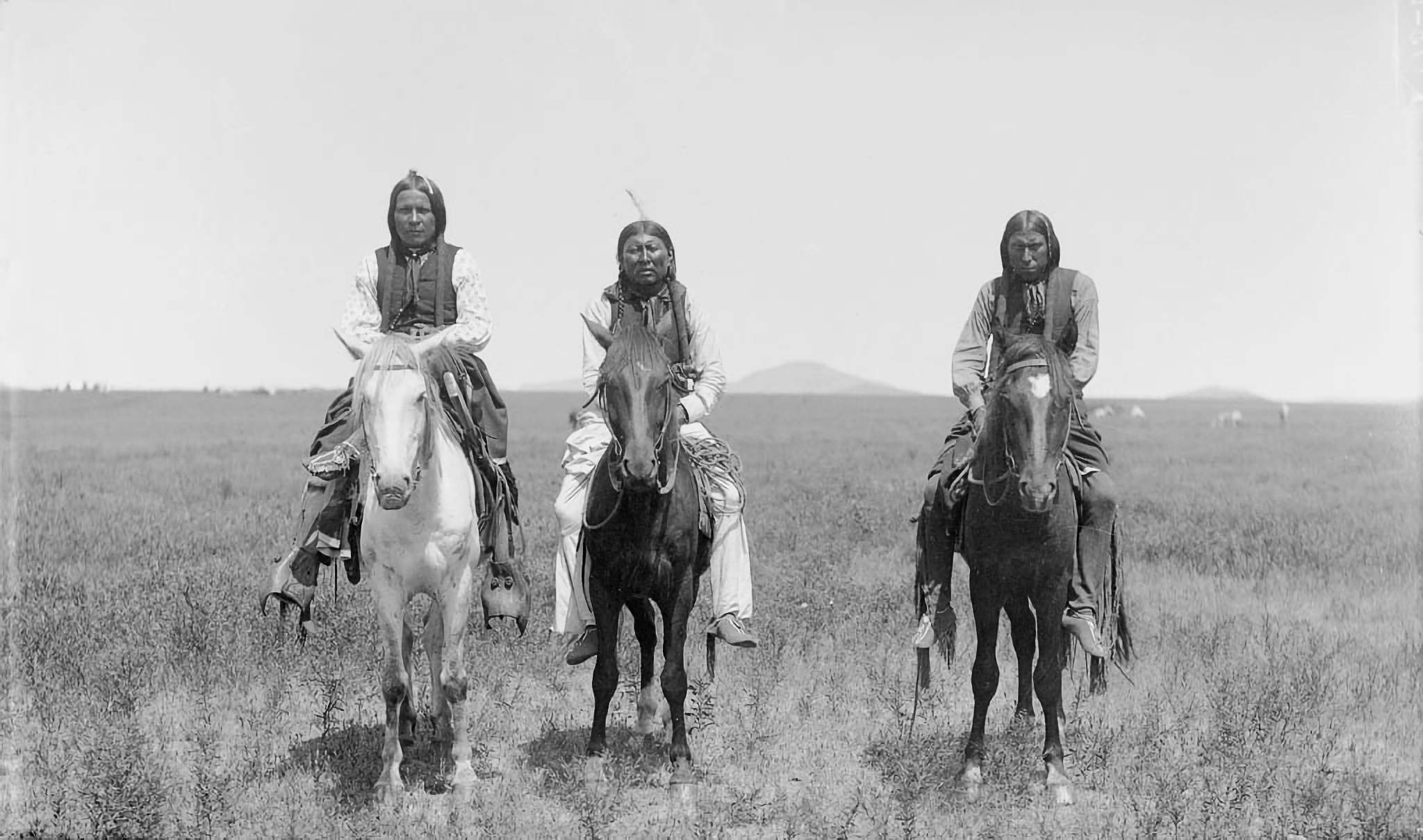 Three mounted Comanche Indian warriors, photographed 1892.